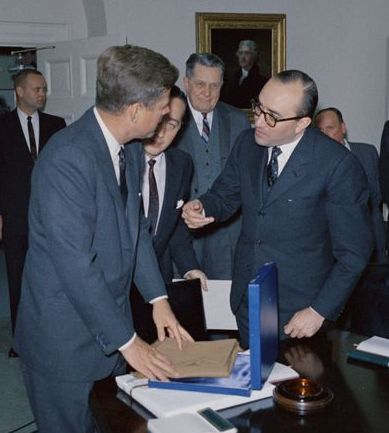 President John F. Kennedy meets with Minister of Foreign Affairs of Argentina, Dr. Carlos Manuel Muñiz (center right); Dr. Muñiz presents a gift of a vicuña poncho to President Kennedy. Also pictured: Ambassador of Argentina, Dr. Roberto T. Alemann; U.S. State Department interpreter, Donald Barnes; Special Assistant to the President, Ralph Dungan; White House Secret Service agent, Tony Sherman. Cabinet Room, White House, Washington, D.C.